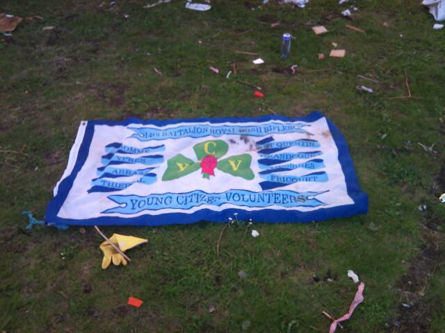 The flag of the paramilitary group the YCV(Young Citizen Volunteers)